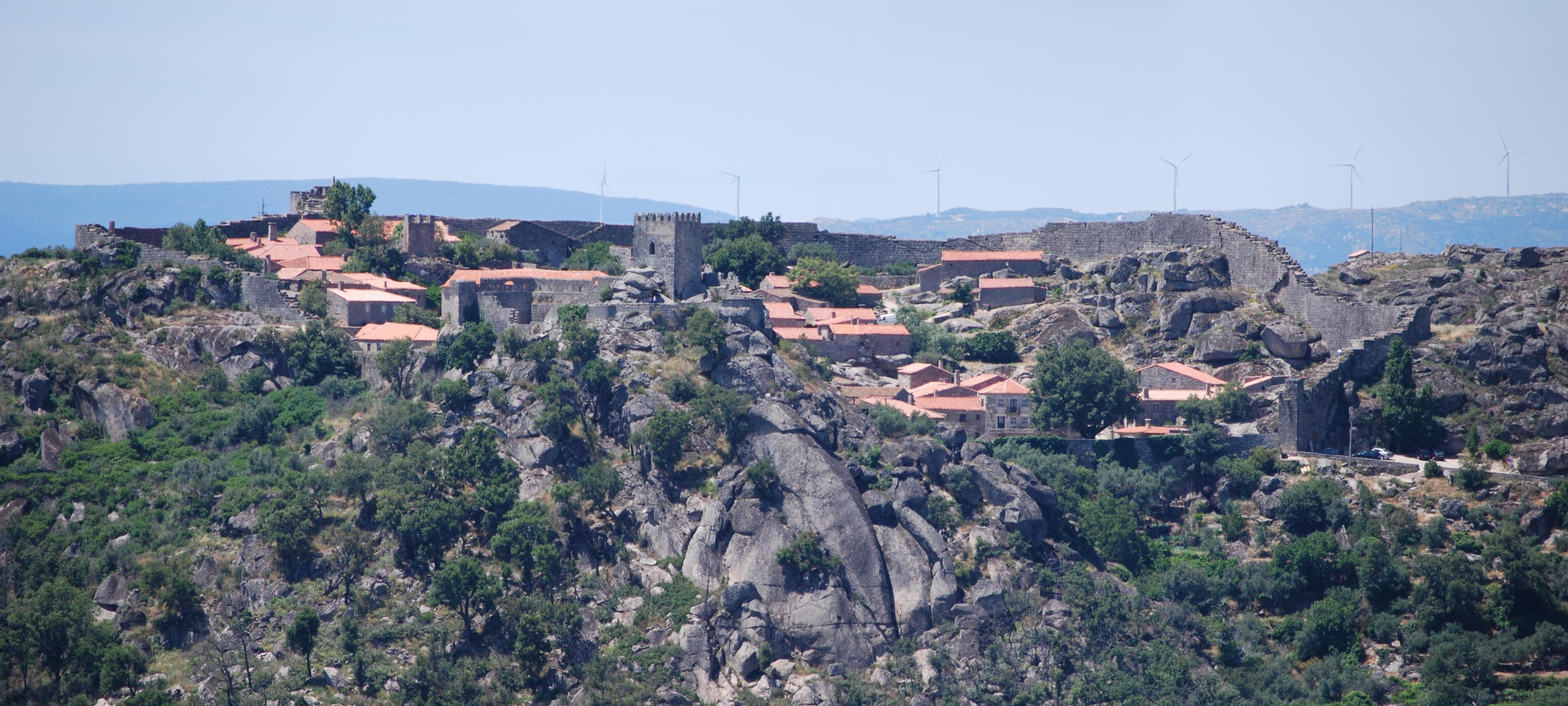 This file was uploaded for Wiki Loves Monuments in Portugal with the unique identifier 70735.